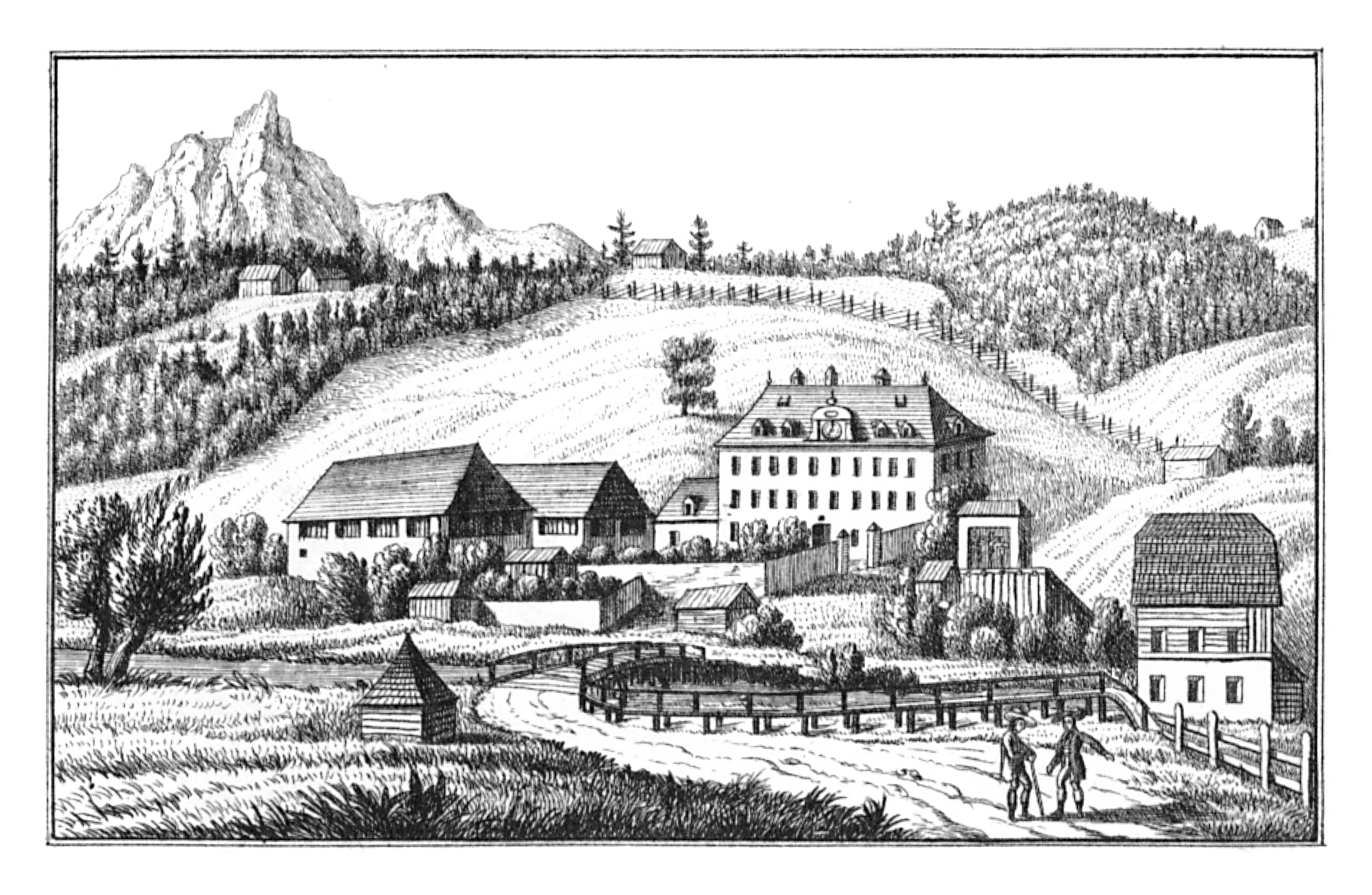 J. F. Kaiser - lithographirte Ansichten der Steyermärkischen Städte, Märkte und Schlösser, Graz 1824-1833 Joseph Franz Kaiser (1786–1859) Alternative names J. F. KaiserDescriptionAustrian printer and editorDate of birth/death 11 March 1786 19 September 1859Location of birth/death Graz (Styria) GrazAuthority control : Q1499963 VIAF: 30629353 ISNI: 0000 0000 3083 0153 LCCN: n87141671 GND: 129880159 NLP: A24960305 WorldCat creator QS:P170,Q1499963 . Scanprojekt Community Projektbudget 2012 This scan or this PDF-file was created within the GLAM-project Bookscanning, supported by Wikimedia Germany and Wikimedia Austria as a part of the community-project to capture books, documents and pictures which are not eligible to copyright or for which the copyright has expired. This document describes or depicts an object which is located in Austria today. Send requests for uncompressed scans to Hubertl. This work is in the public domain in its country of origin and other countries and areas where the copyright term is the author's life plus 100 years or less. You must also include a United States public domain tag to indicate why this work is in the public domain in the United States. This file has been identified as being free of known restrictions under copyright law, including all related and neighboring rights.